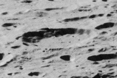 Oblique view of Oberth, on the far side of the moon, facing west.